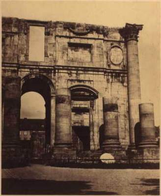 Frederik's Church (The Marble Church) as a ruin.